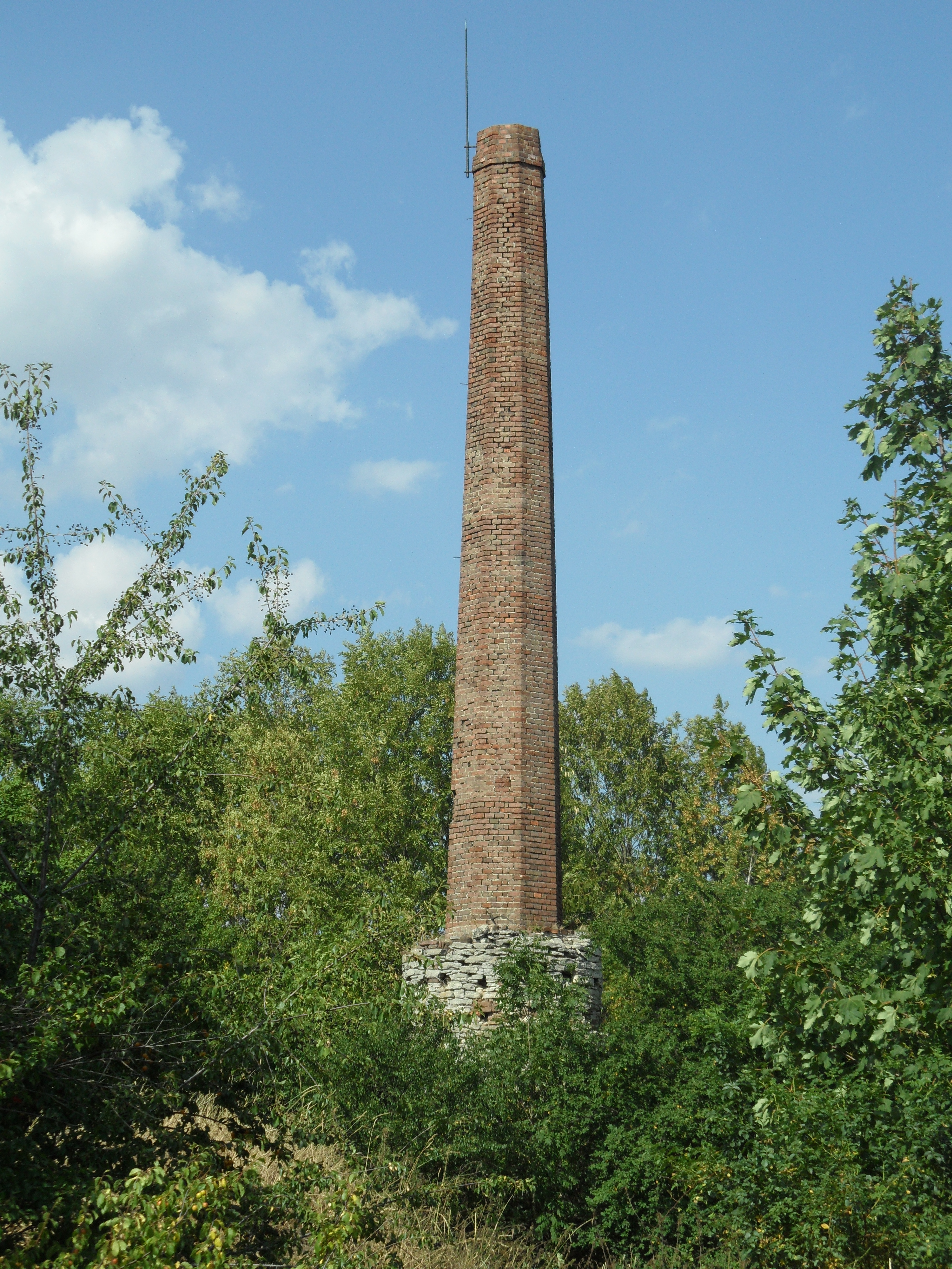 Miskovice B01. Former Lime kilns from 19th Century, South from Quarry. Kutná Hora District, the Czech Republic.